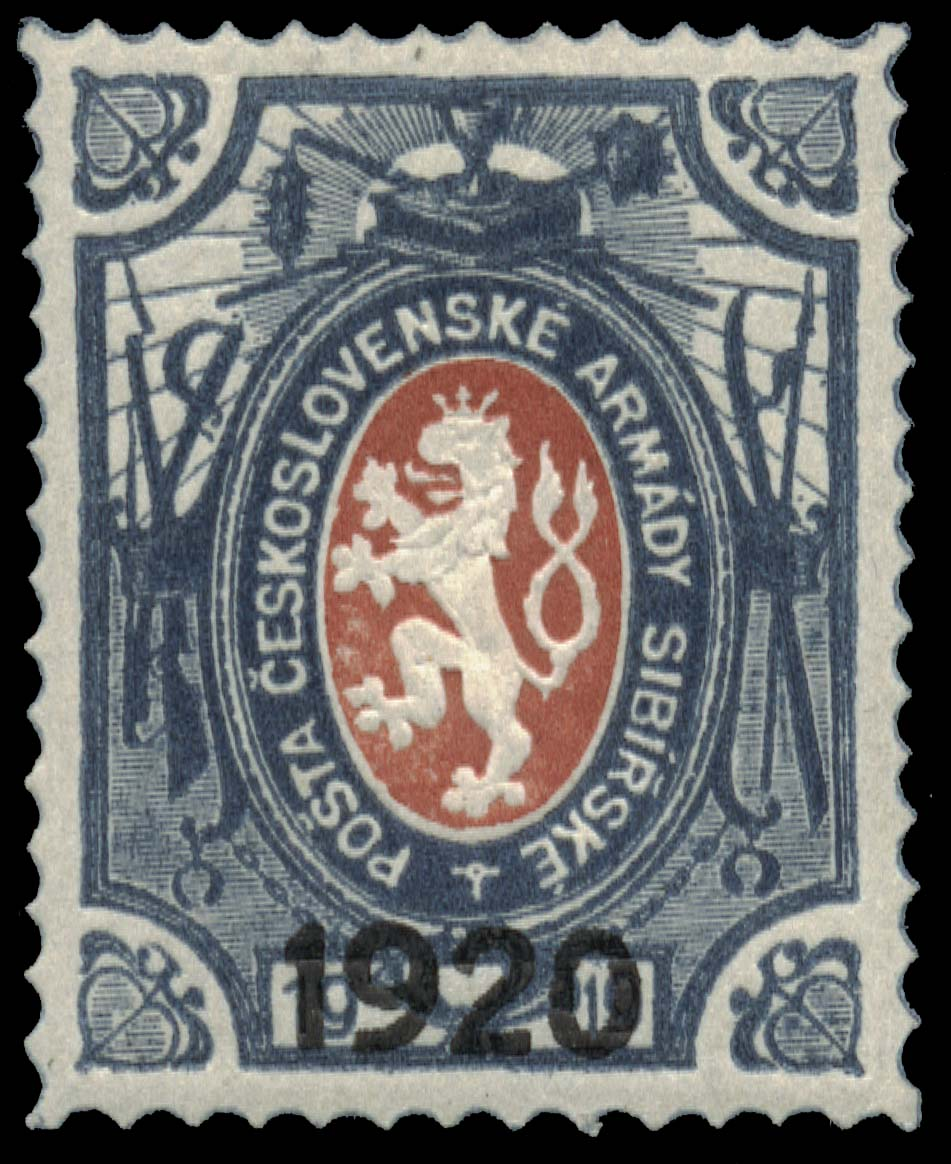 Stamp of the Czechoslovak legion in Russia, 1920